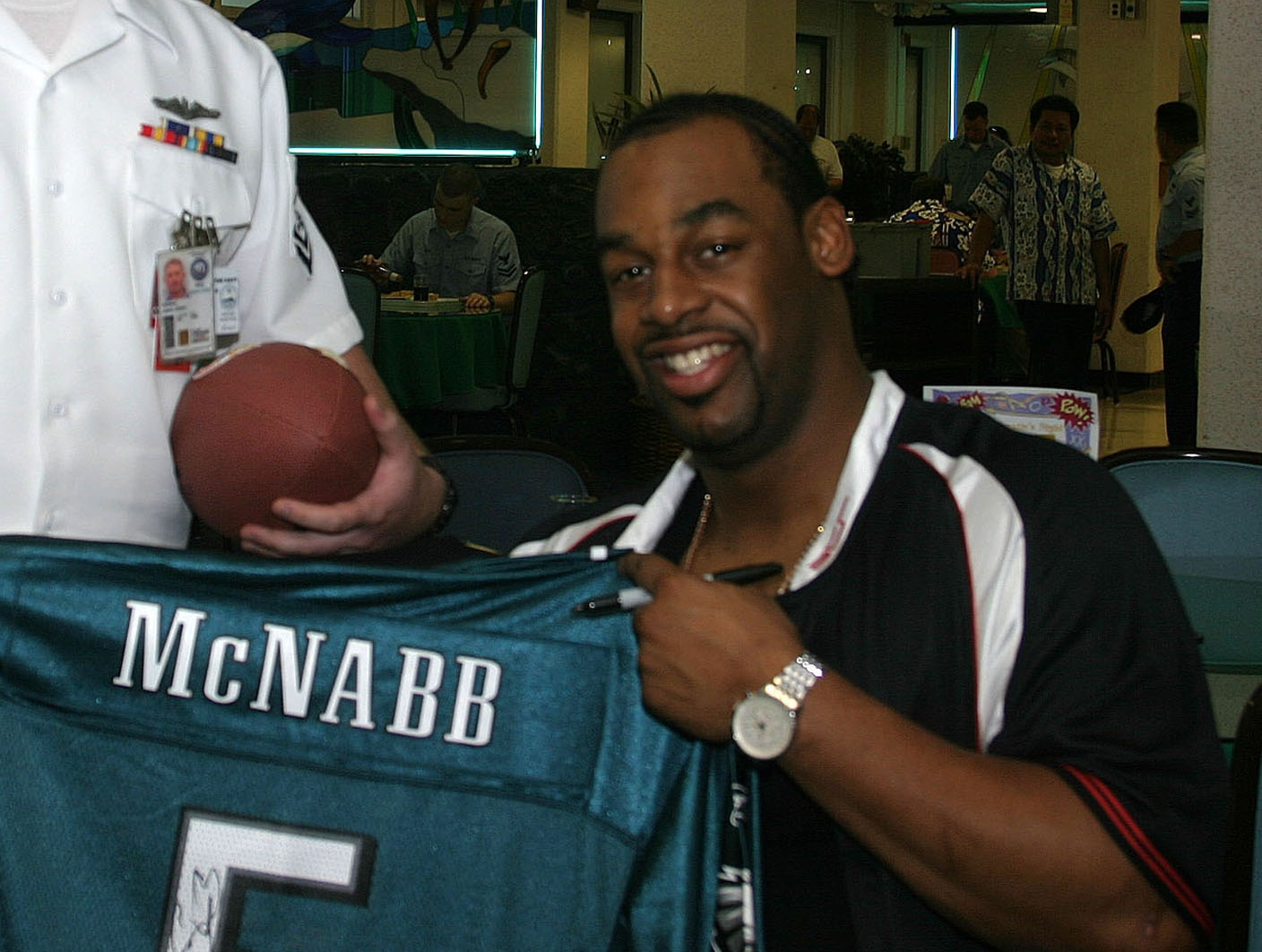 Philadelphia Eagles quarterback Donovan McNabb signed a football jersey belonging to Storekeeper 2nd Class of Fleet Industrial Supply Center, Pearl Harbor. McNabb visited the Silver Dolphin Bistro at Naval Station Pearl Harbor on Feb. 3 to meet with Sailors. Cropped from original U.S. Navy photograph.